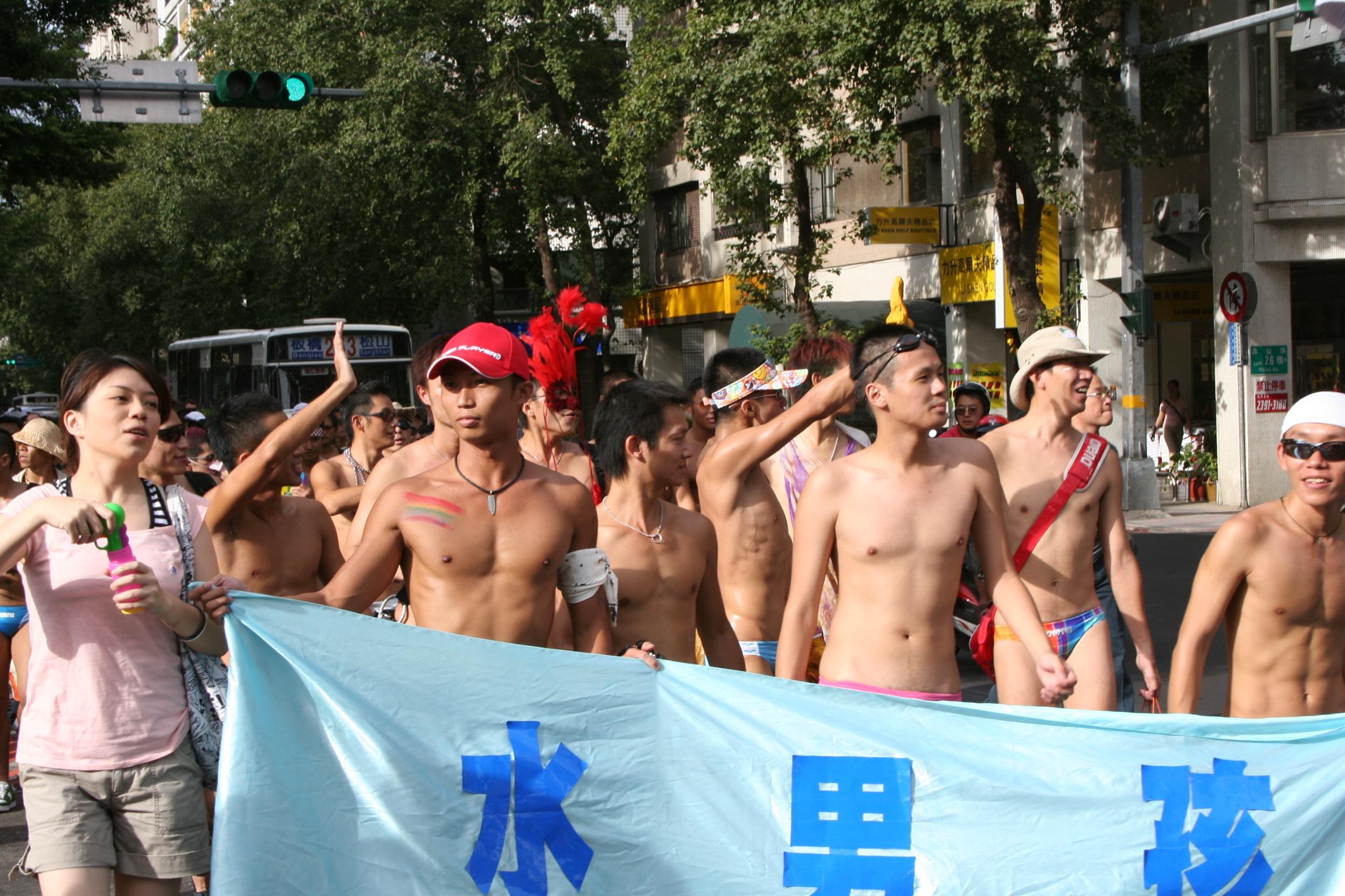 "WATERBOY" on Taiwan Pride 2005 2005-10-01 15:31